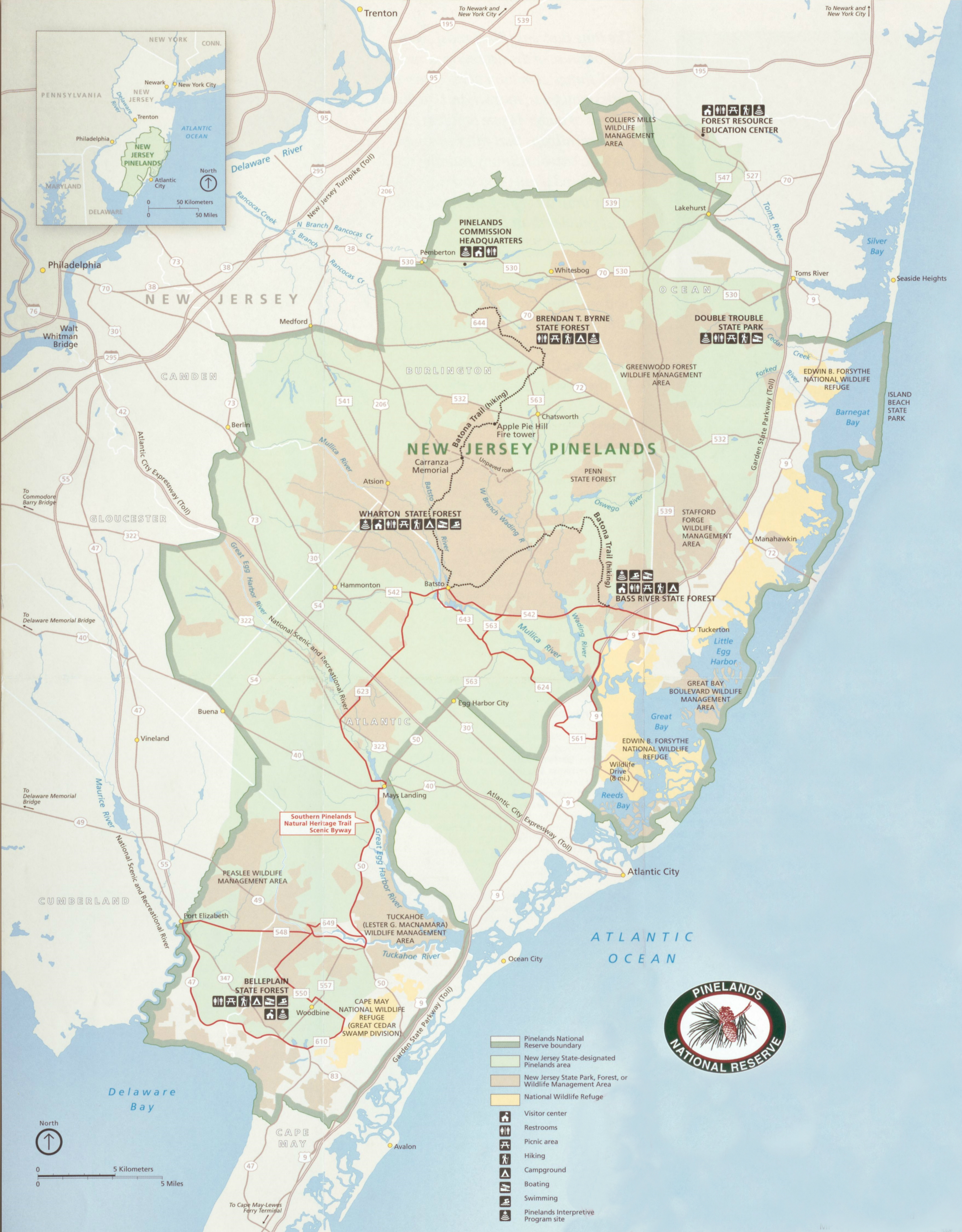 Pinelands National Reserve (N.J.)--Map. Washington, D.C.: National Park Service, 2008